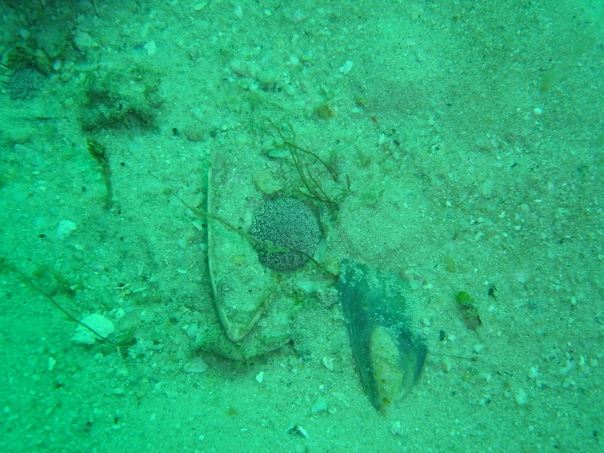 Purple sea pen off Windmill Beach in False Bay